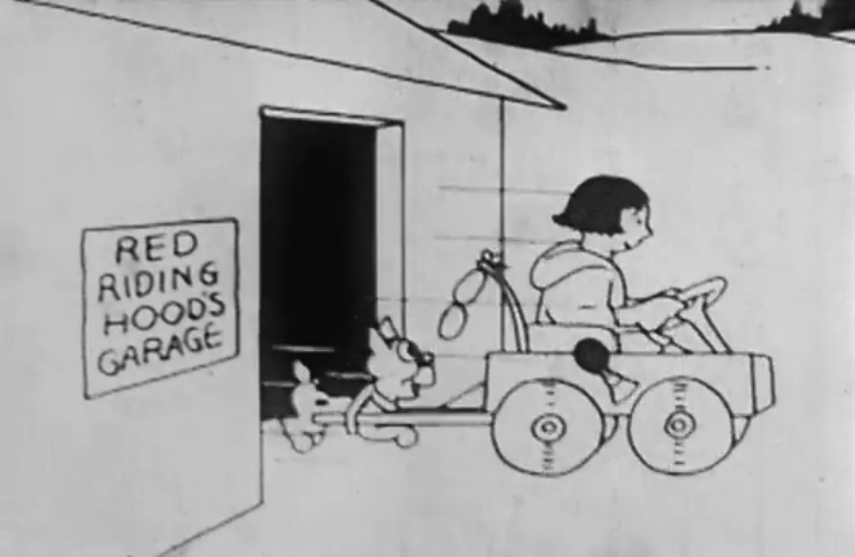 Still frame from the 1922 animated short Little Red Riding Hood